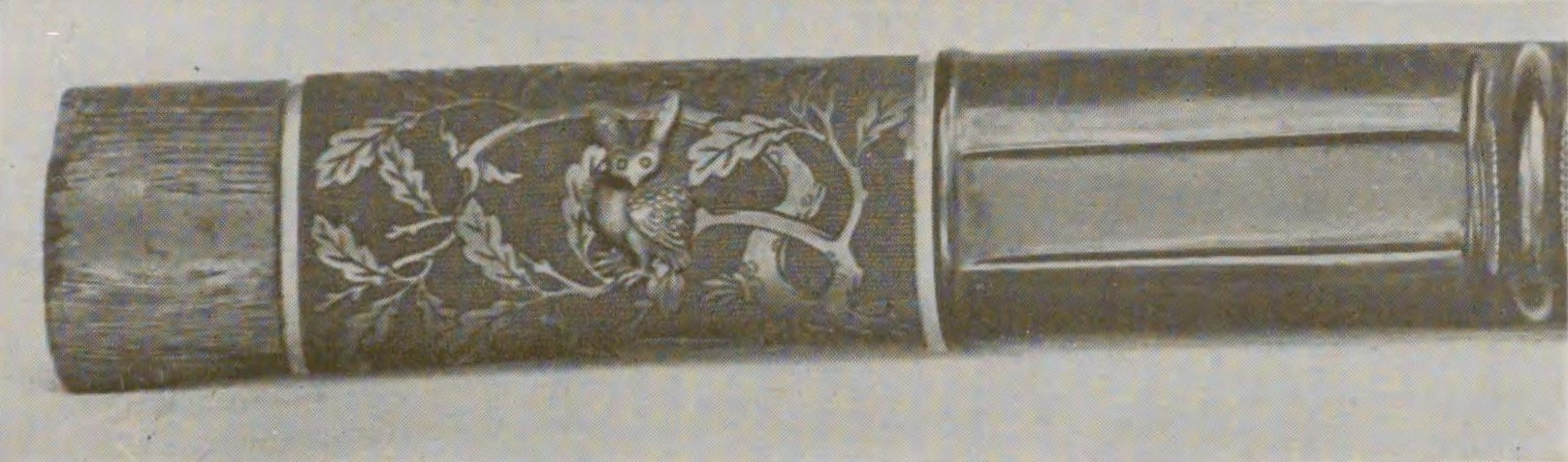 A tsuka of Kashiwa mimizuku koshigatana koshirae made in Nambokucho period at Kasuga-taisha, Nara, Nara prefecture. An Important Cultural Property of Japan.